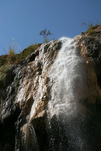 Hammamat Ma'in, Jordan